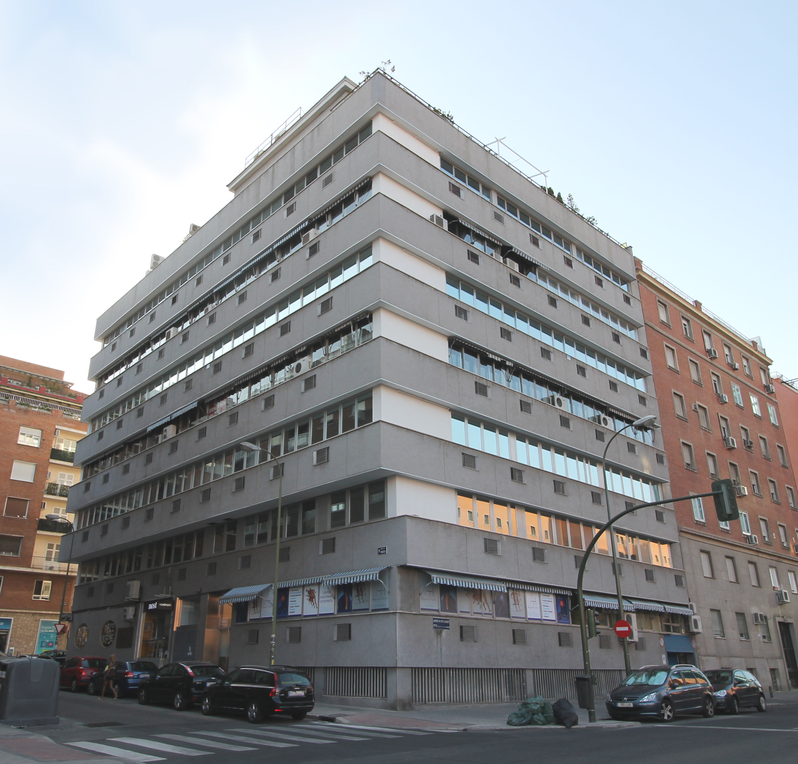 Building at 51 Calle de Maudes (street) in Madrid (Spain). It was home to Aviaco's head offices.